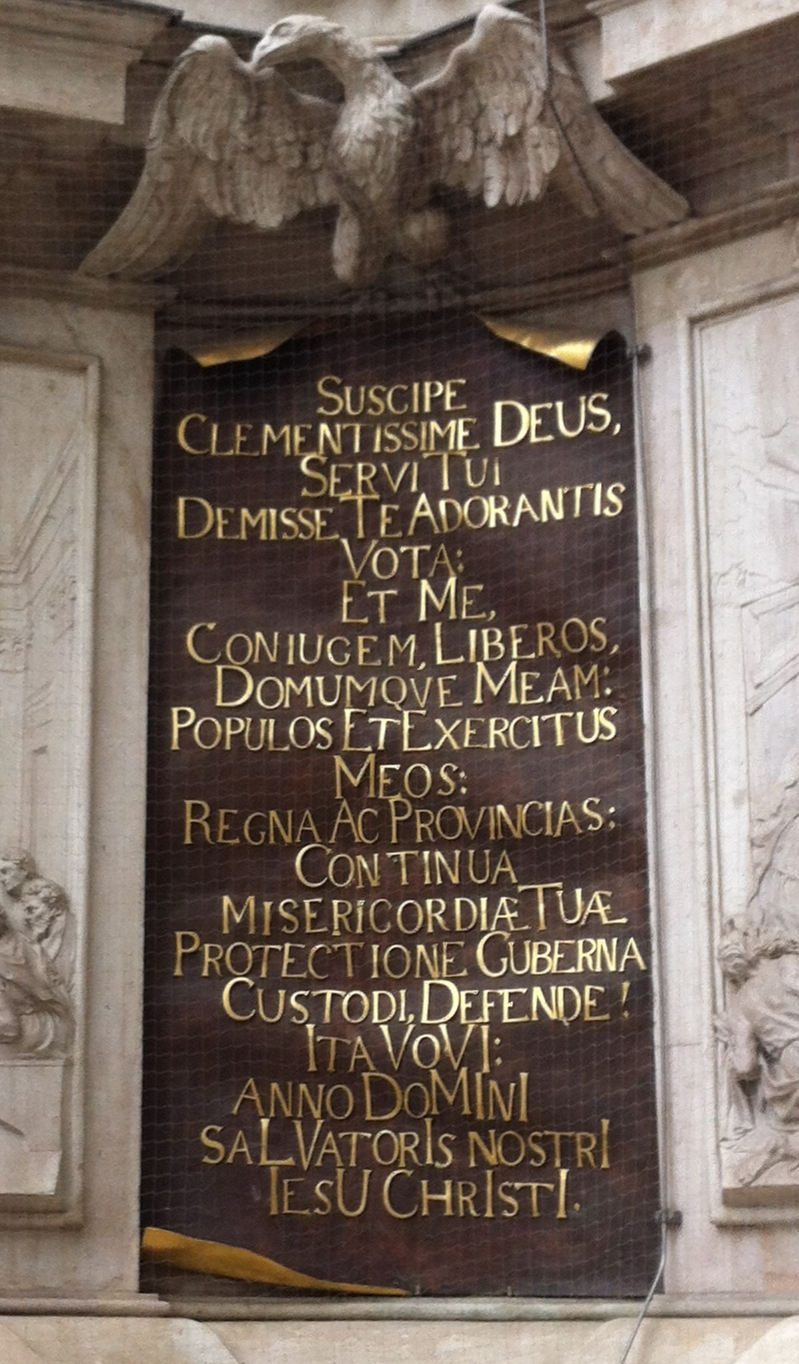 Inscription with chronogram at the "Pestsäule" in Vienna, a baroque sculpture dedicated to the Holy Trinity commemorating the plague epidemic of 1679